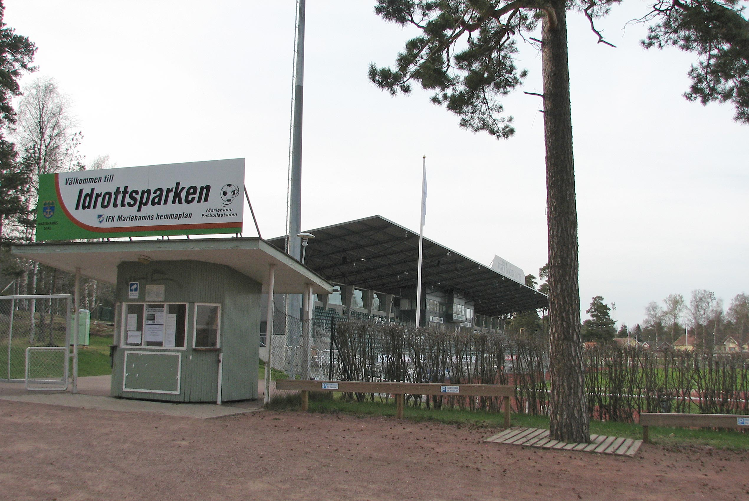 Idrottsparken or Wiklöf Holding Arena in Mariehamn, Åland islands.